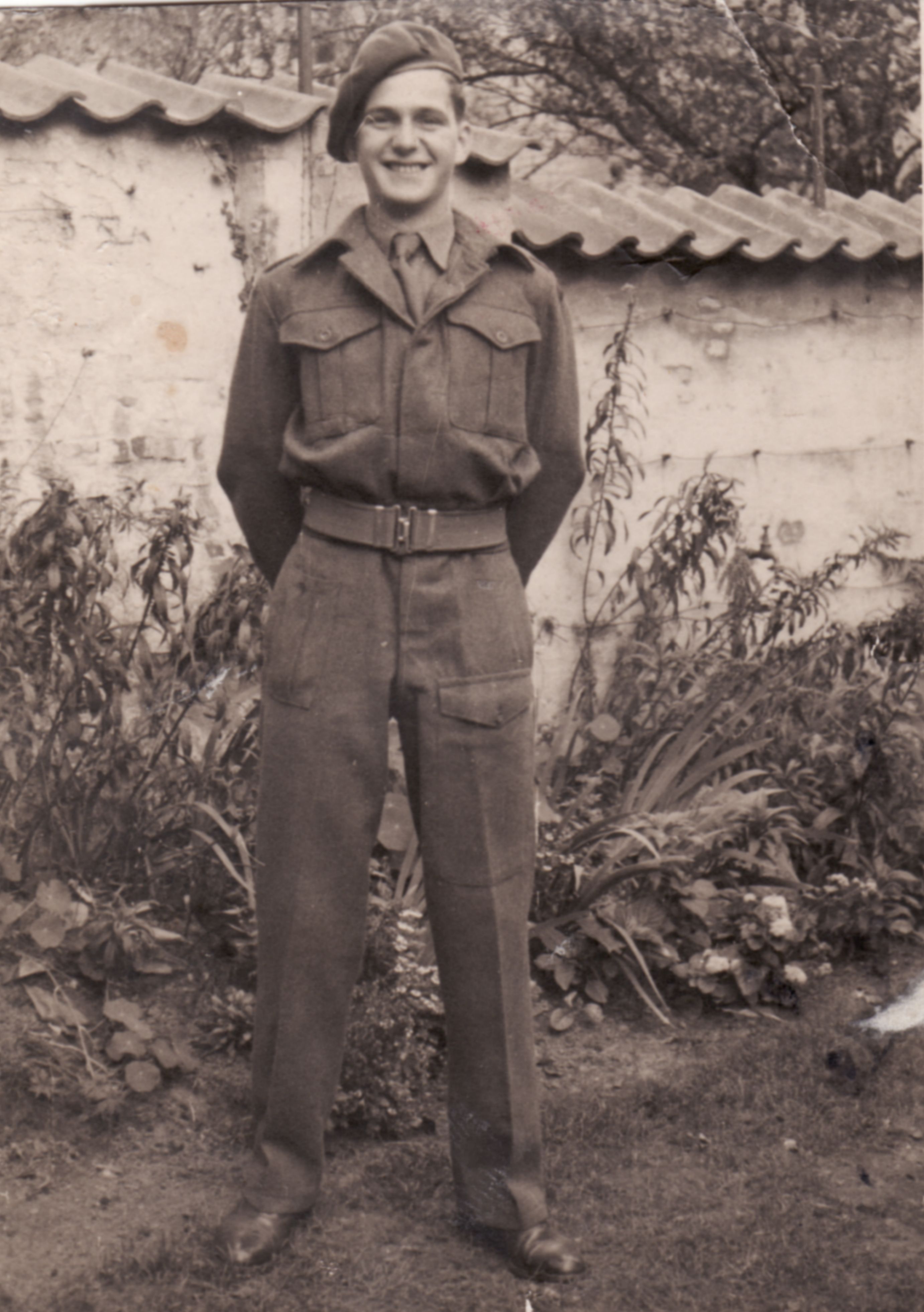 British soldier in England.